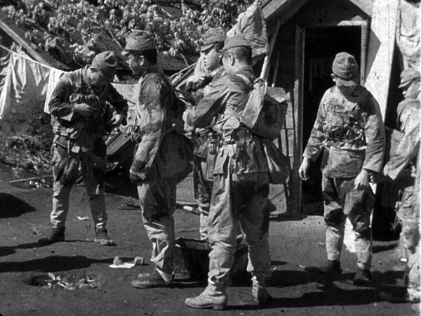 Giretsu Kuteitai - improving their camoflage before their attack on the Yuntan airfield on Okinawa. May 24, 1945.